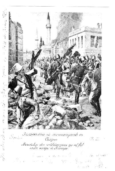 Arrest of alive members of Gemedjii, april 1903